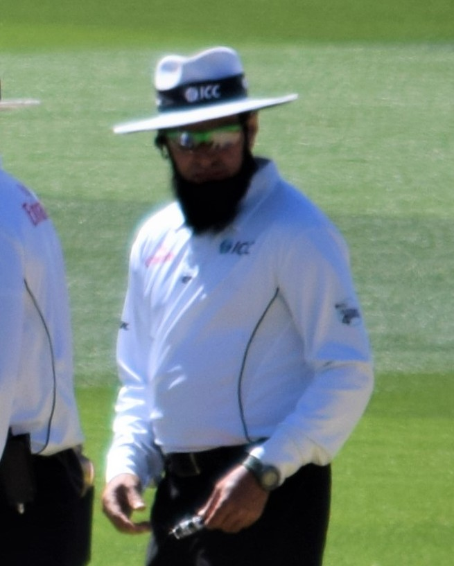 Australia v England - Day/Night Adelaide Oval 2nd Ashes Test (Day 5)